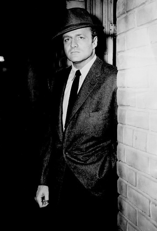 Photo of Brian Keith as Matt Anders, the main character in the television program The Crusader.